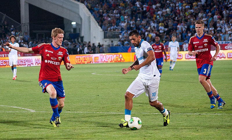 Danny during CSKA Moscow-Zenit Saint Petersburg, Russian Super Cup 2013